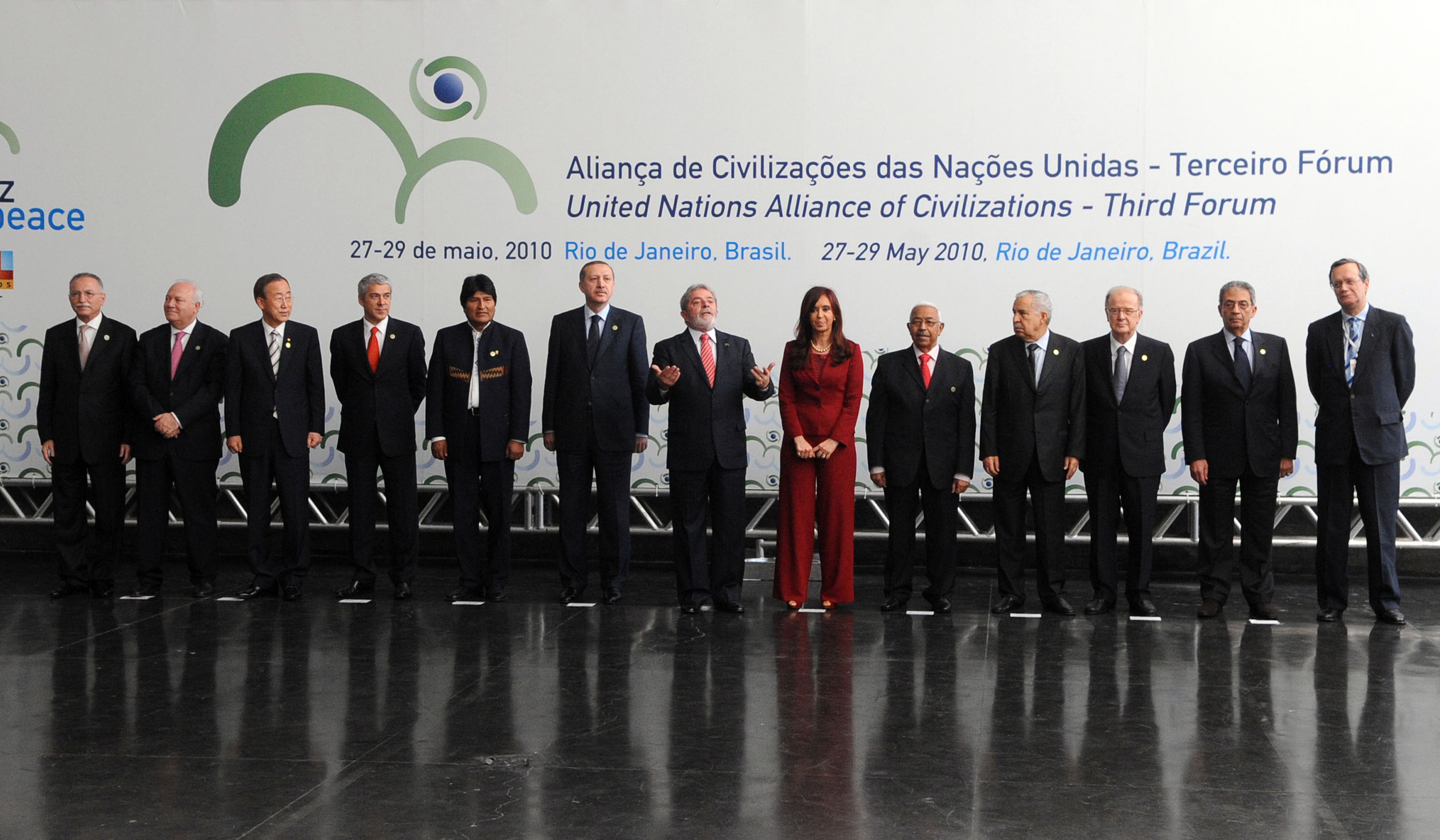 From left to right, Secretary General of Organization of Islamic Conference Ekmeleddin Ihsanoglu, Spain's Foreign Minister Miguel Angel Moratinos, U.N. Secretary-General Ban Ki-moon, Portuguese Prime Minister Jose Socrates, Bolivia's President Evo Morales, Turkey's Prime Minister Recep Tayyip Erdogan, Brazil's President Luiz Inacio Lula da Silva, Argentina's President Cristina Fernandez, Cape Verde's President's Pedro Verona Rodrigues Pires, President of the United Nations General Assembly Ali Abdussalam Treki, Civilizations and Former President Jorge Sampaio, Arab League Secretary General Amr Moussa, and Secretary General of the Organization for Security and Co-operation in Europe Marc Perrin de Brichambaut, pose for a group photo at the Third Forum of the Alliance of Civilizations (AoC) in Rio de Janeiro